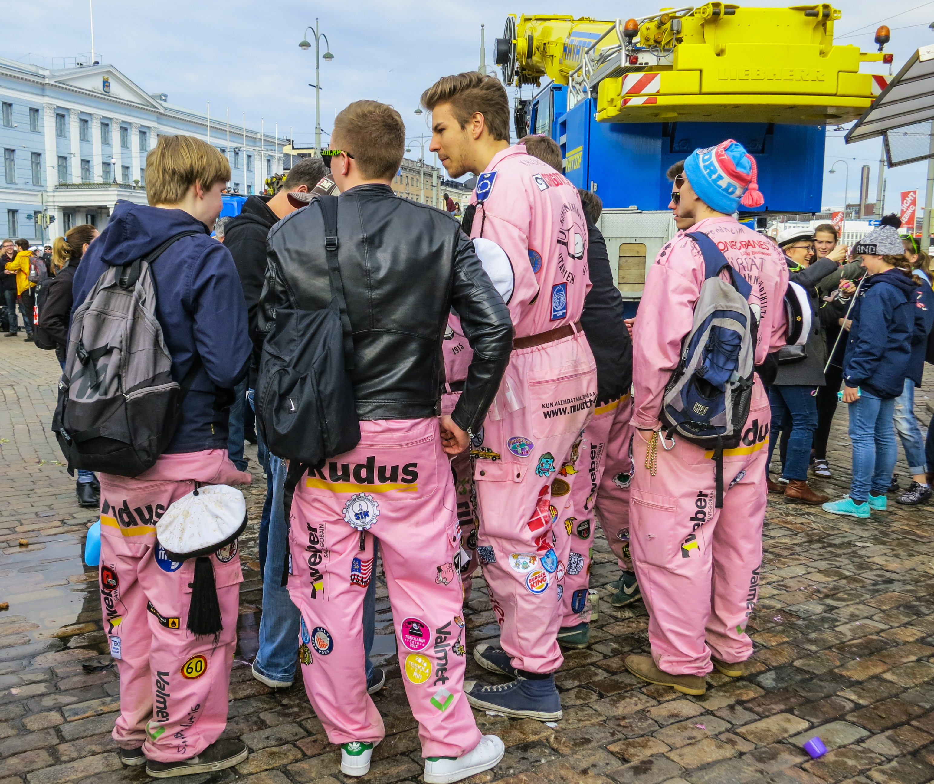 Student culture in Helsinki on the first of May